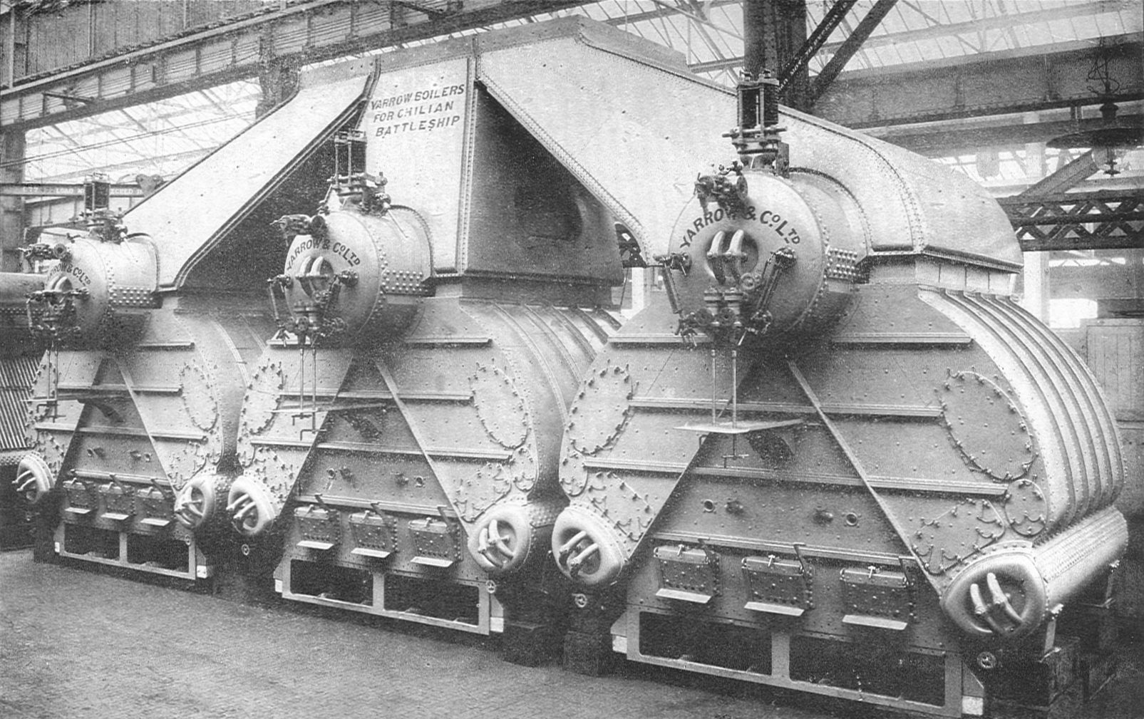 A flat of three Yarrow boilers, assembled in Yarrow's works before delivery. A painted caption reads "Yarrow boilers for Chilian (sp. Chilean) Battleship". Spelling of "Chilian" is original